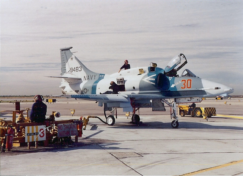 A U.S. Navy Douglas A-4M Skyhawk (BuNo 159483) of Fighter Squadron VF-126 "Bandits" at Naval Air Station Miramar, California (USA) being serviced, circa 1990-1993. The U.S. Navy mostly used the A-4E/F in the agressor role and operated only a handful of A-4Ms, after they were retired by the U.S. Marine Corps.The A-4M 159483 was sold to Argentina in 1995 (as "C-933").